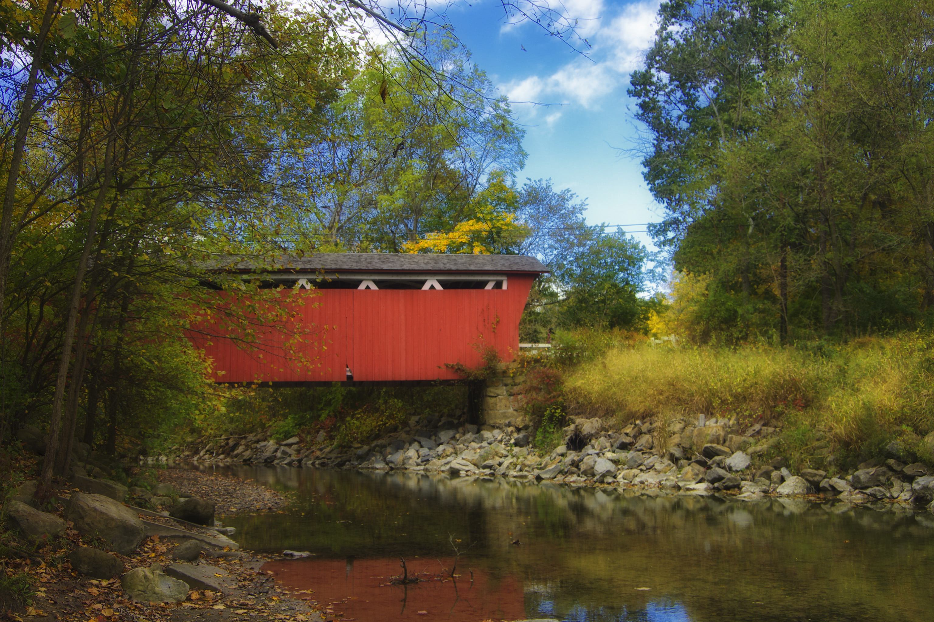 Everett Bridge, Cuyahoga Valley National Park, Ohio